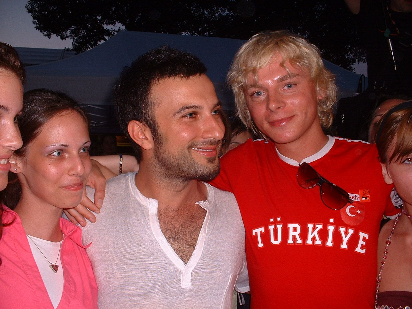 Tarkan in Vienna, with Hungarian fans, on the right: Steiner Kristóf, the VJ of Hungarian VIVA Television.